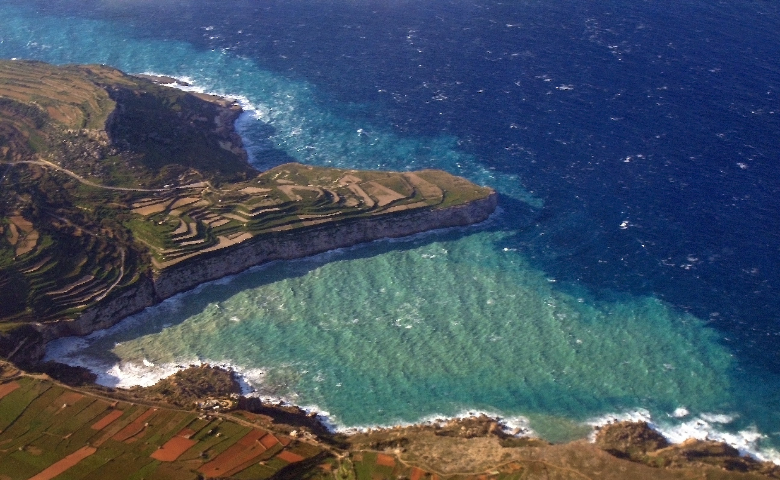 Ras ir-Raheb, using John Haslam's incredible photo